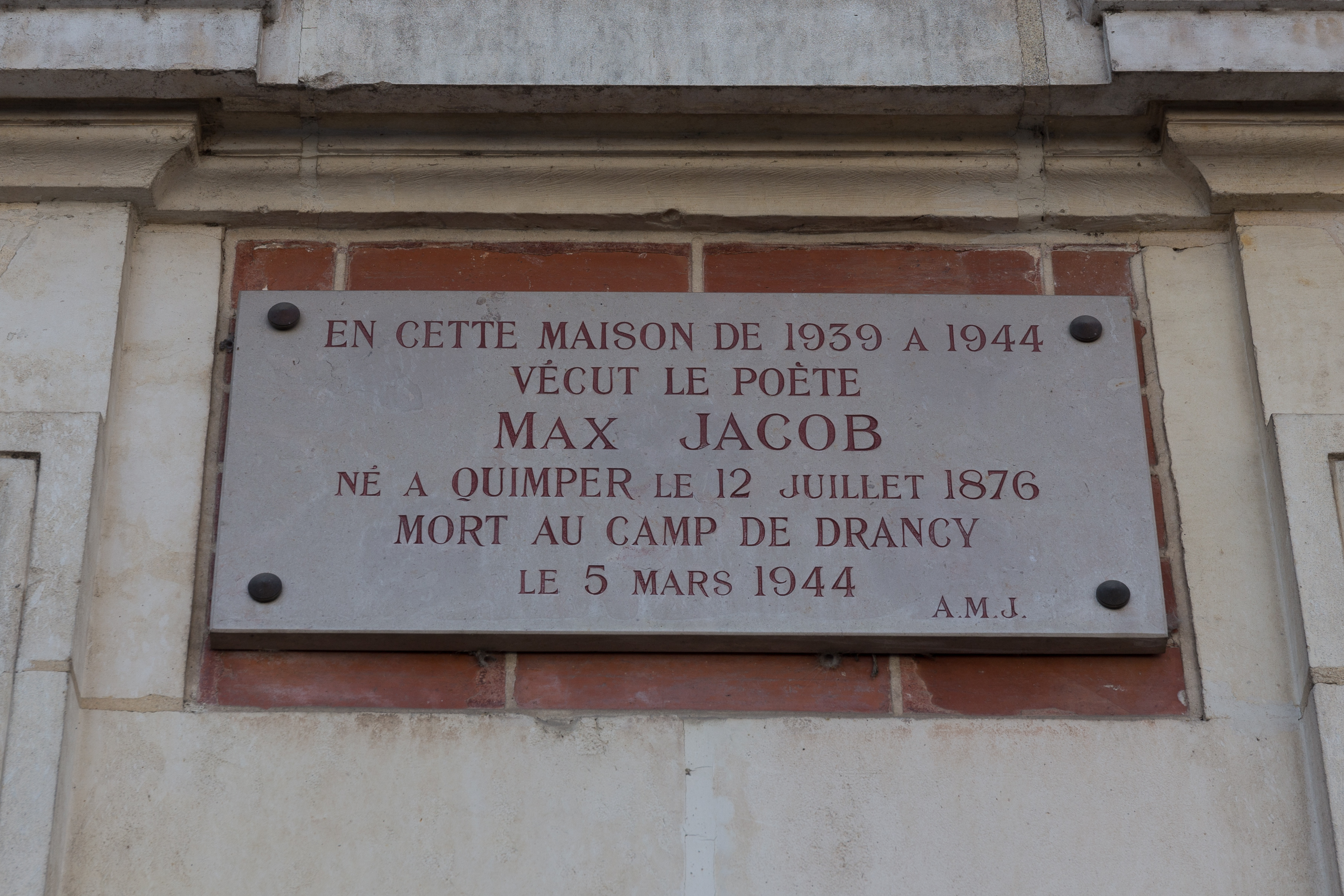 House of Max Jacob in Saint-Benoît-sur-Loire.